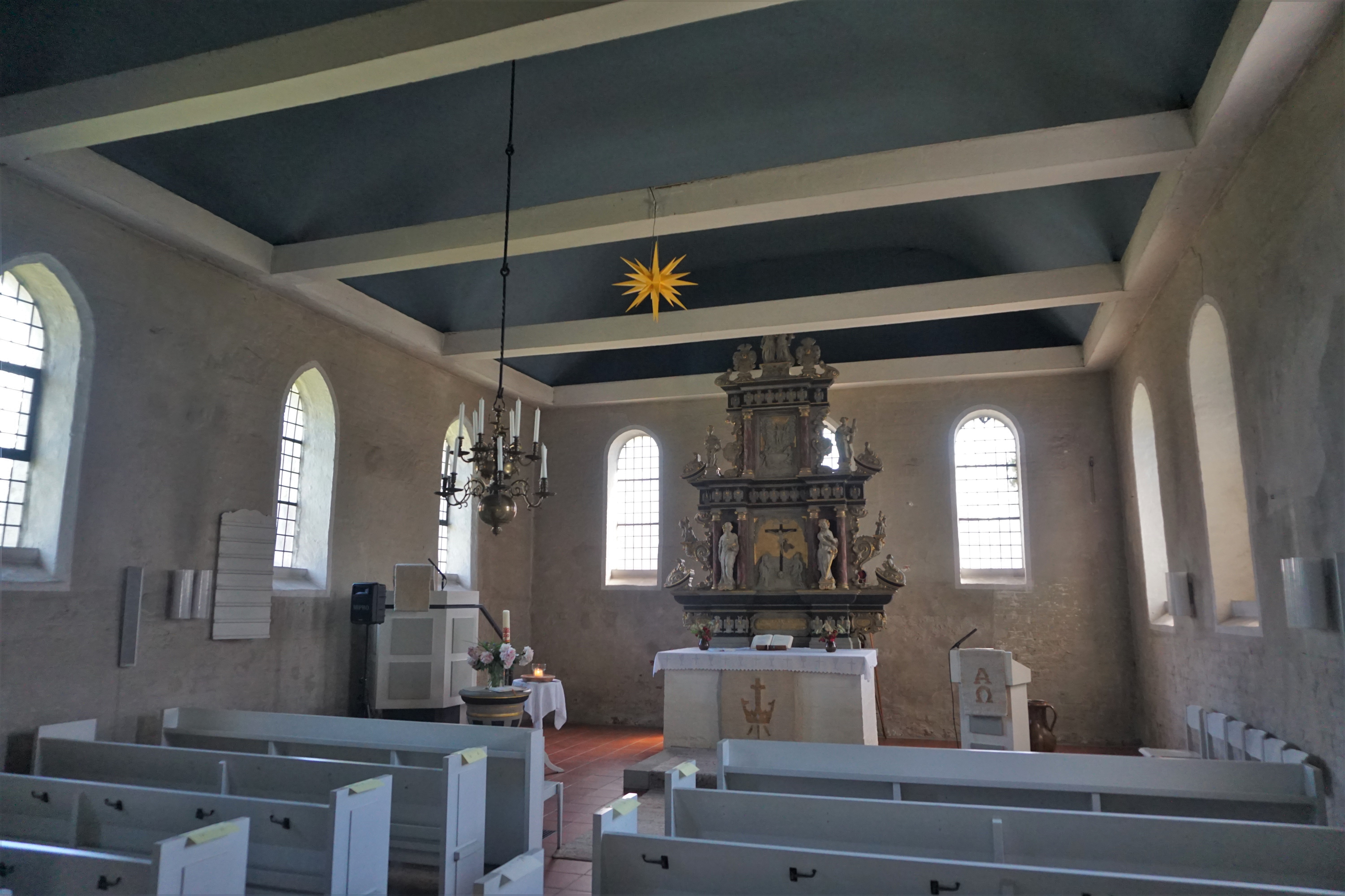 Interior of the church of Saint George in Barum in the district of Uelzen